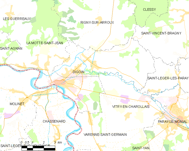 Map of French municipality